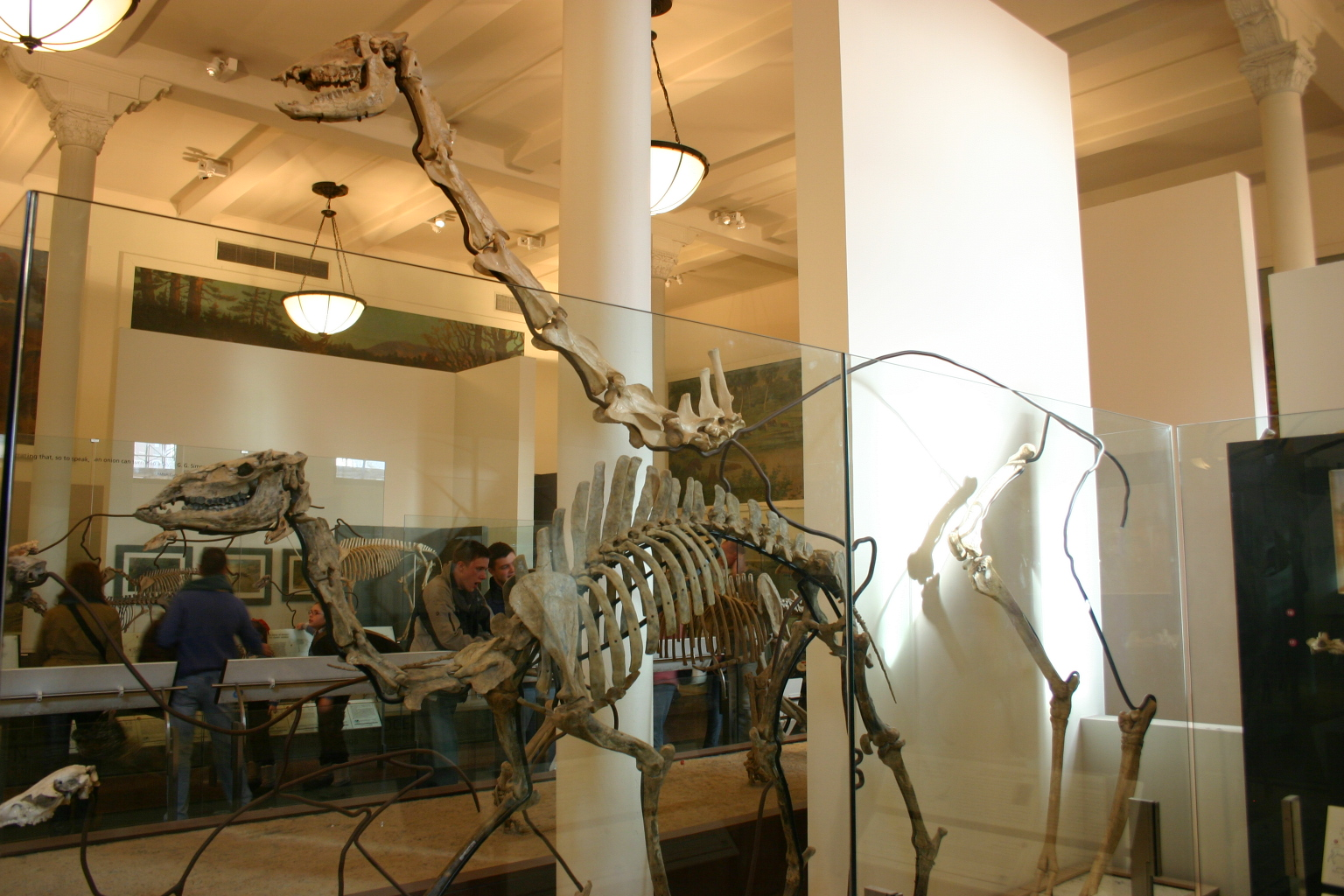 Aepycamelus giraffinus and Procamelus grandis